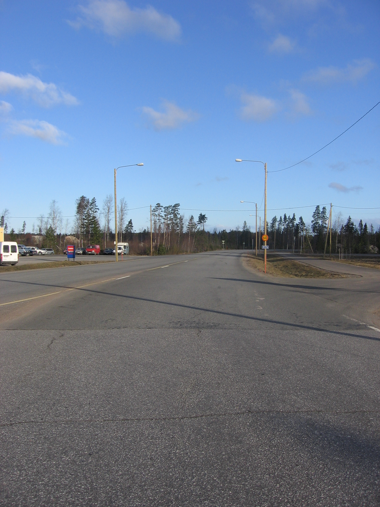 The beginning of Olkiluodontie viewed from the crossing point with Raumantie (part of highway 8).